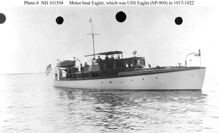 Civilian motorboat Eaglet prior to her United States Navy service as patrol boat USS Eaglet (SP-909)